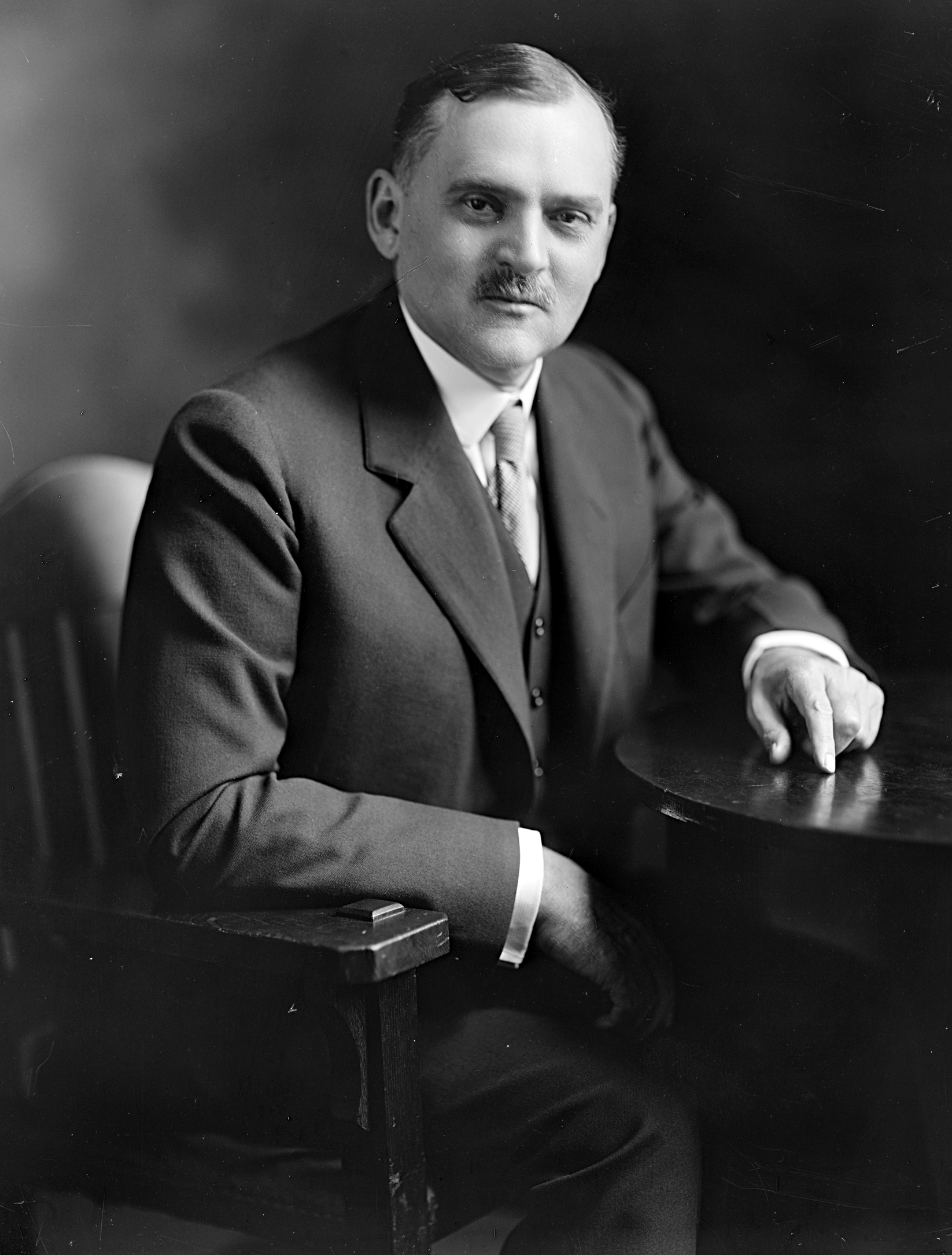 Ira Clifton Copley, US Representative from Illinois